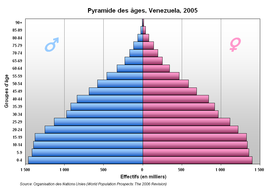 Venezuela Population pyramid, 2005